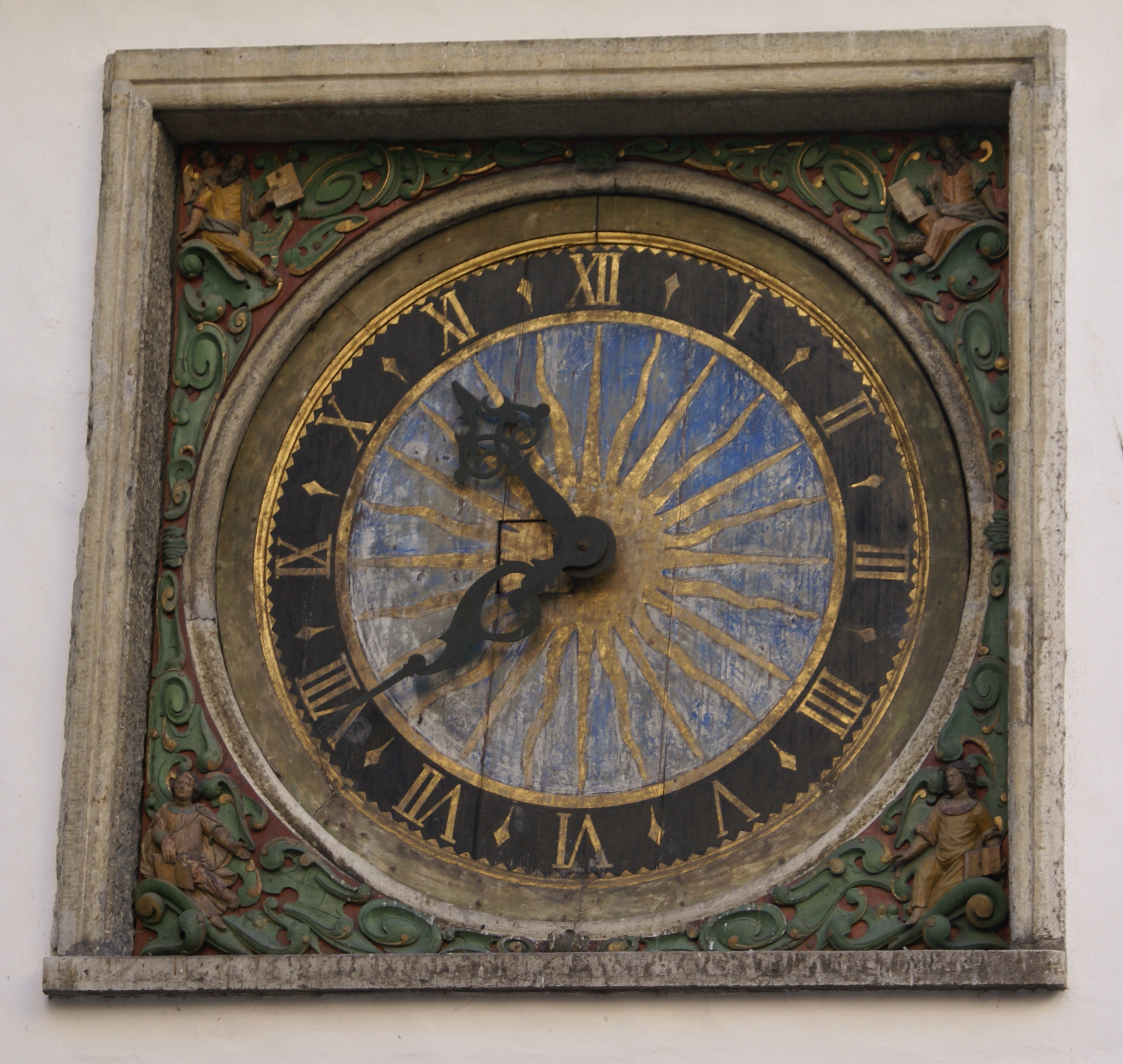 Church of Holy Spirit in Tallinn